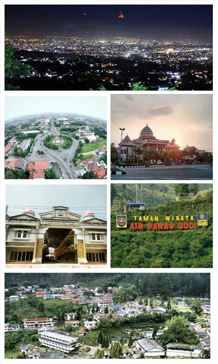 Tegal Regency DateApril 08, 2018 (22:49)SourceOwn workAuthorRezaSetiawan02